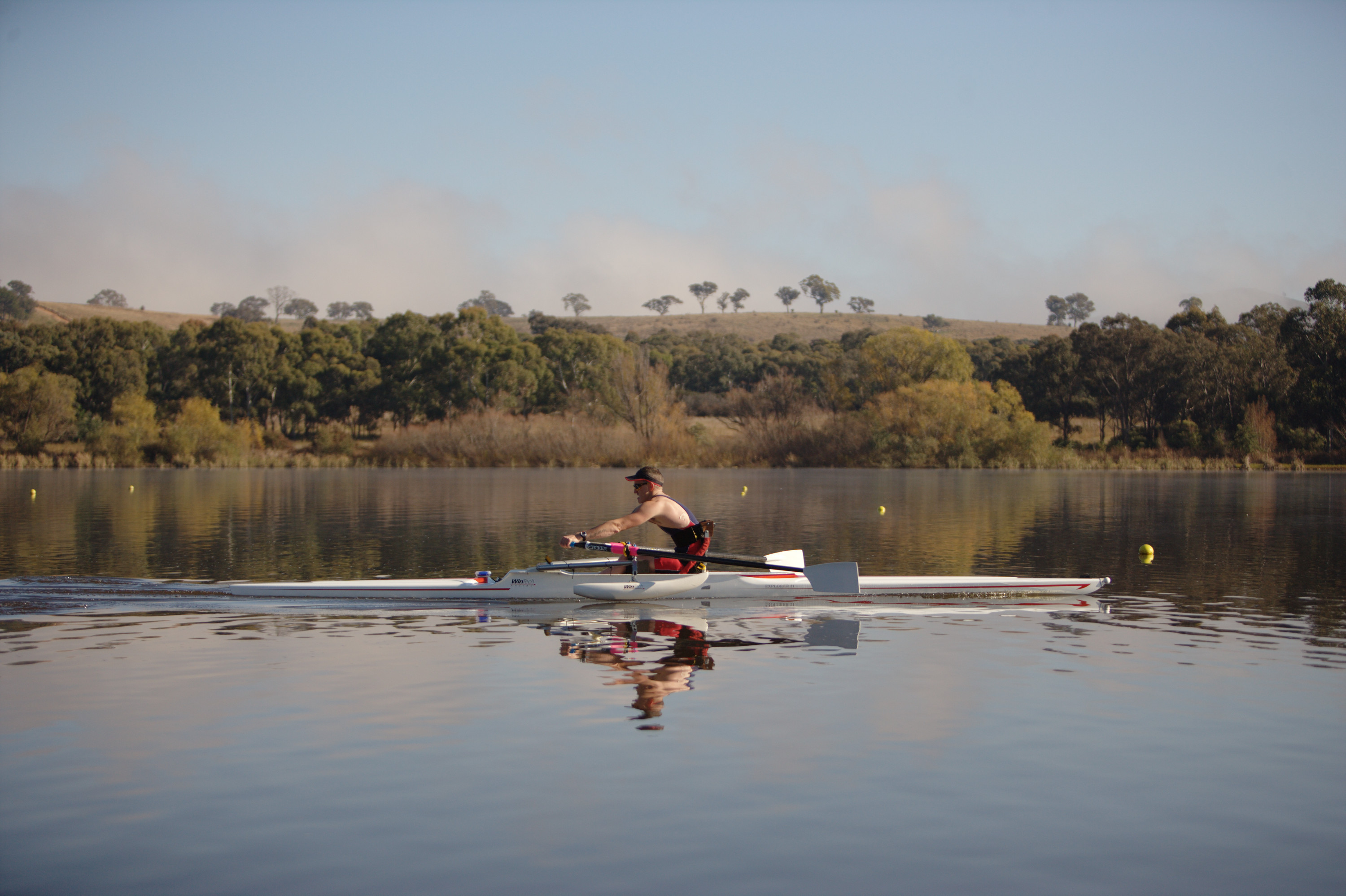 Erik Horrie, of the Australian adaptive rowing team, trains on Lake Burley Griffin.